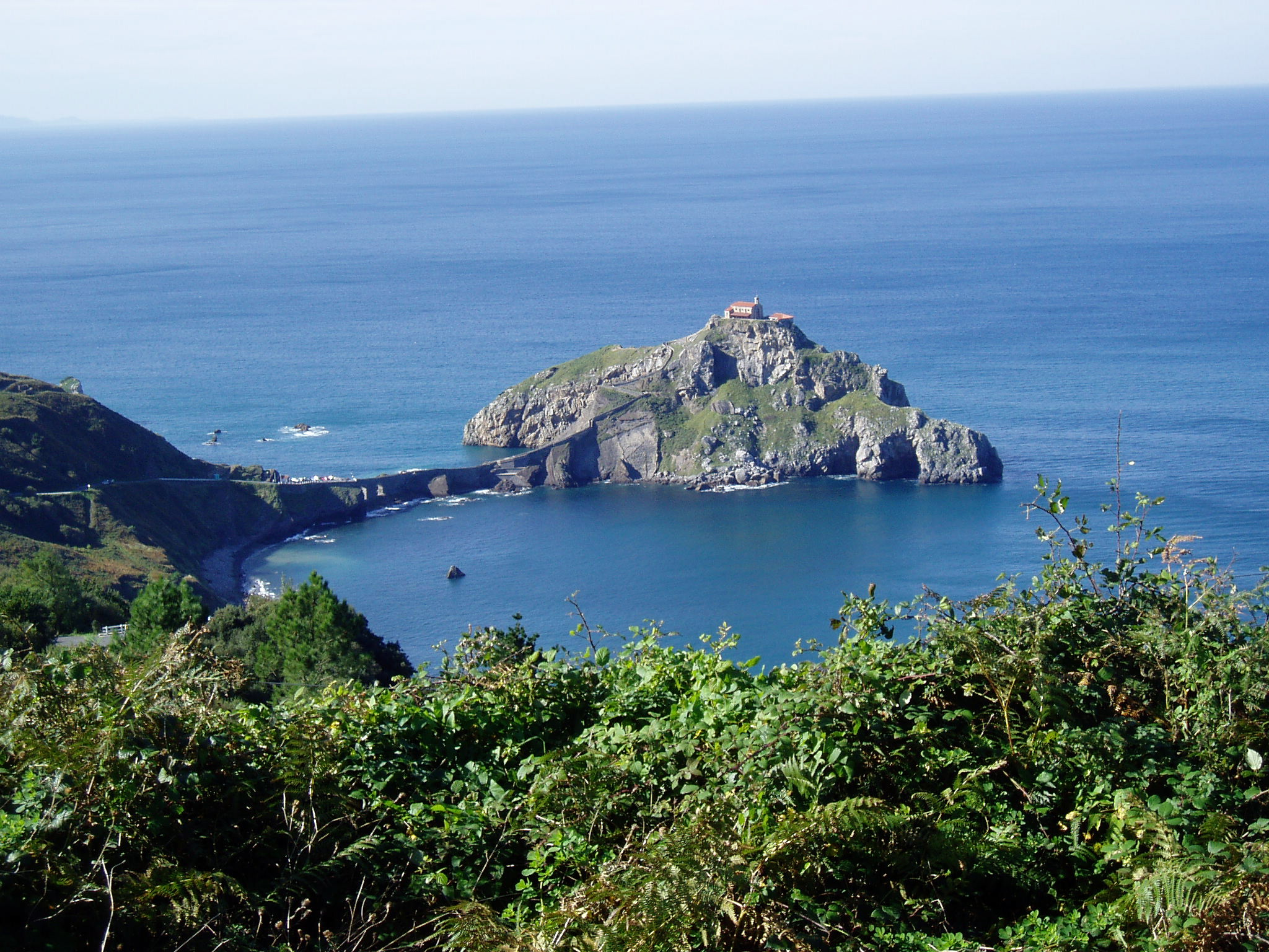 The island of Gaztelugatxe, Bermeo (near Bakio), Spain. Taken on 4 February 2005.